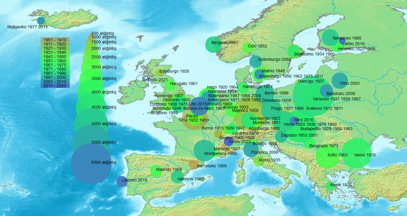 World Congress of Esperanto in Europe from 1905 to 2016. Circle size represents attender number, colour represents congress year. See also World Congress of Esperanto in the world 1905-2017